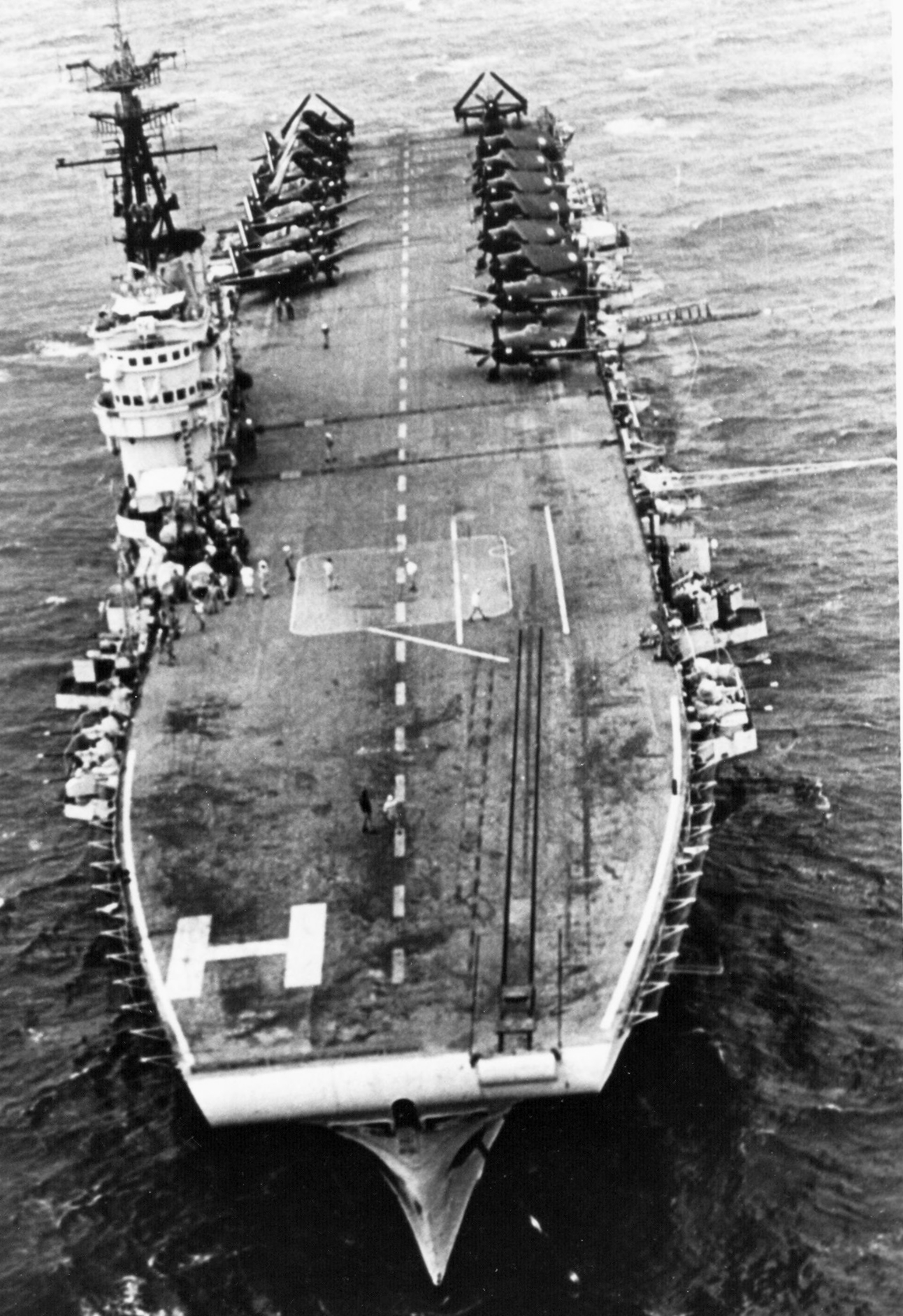 Overhead bow view of the French carrier Arromanches (R95) underway in the Gulf of Tonkin. Grumman F6F-5 Hellcats from Escadrille 1F and Curtiss SB2C-5 Helldivers from Escadrille 3F are visible on deck.